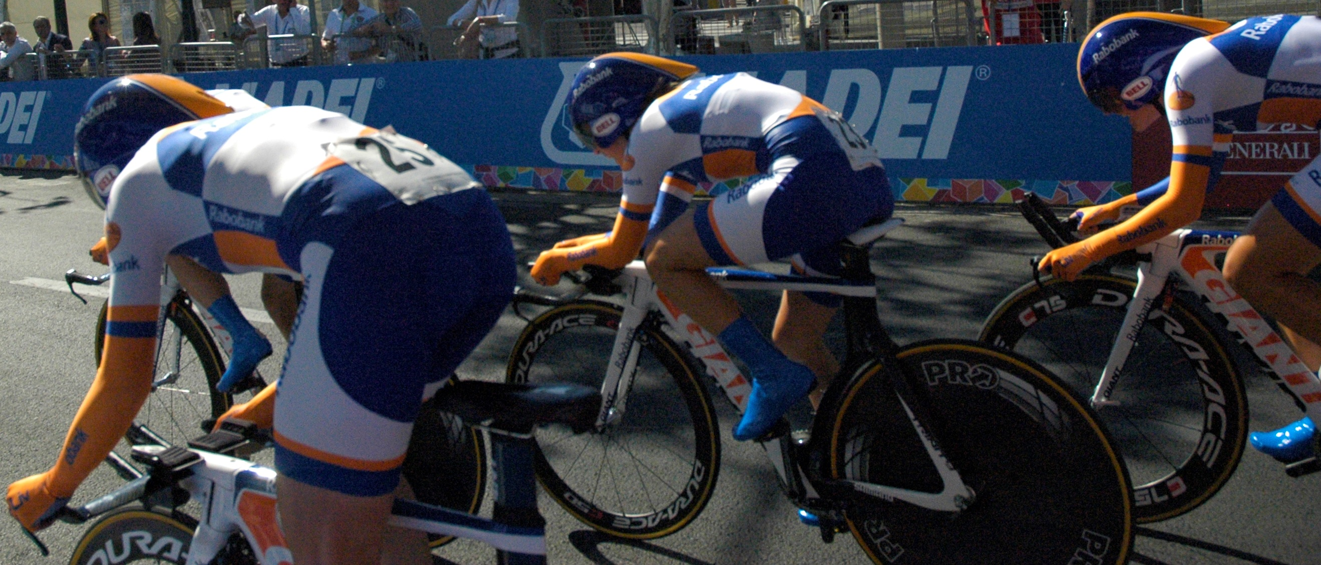 2013 UCI Road World Championships – Women's team time trial